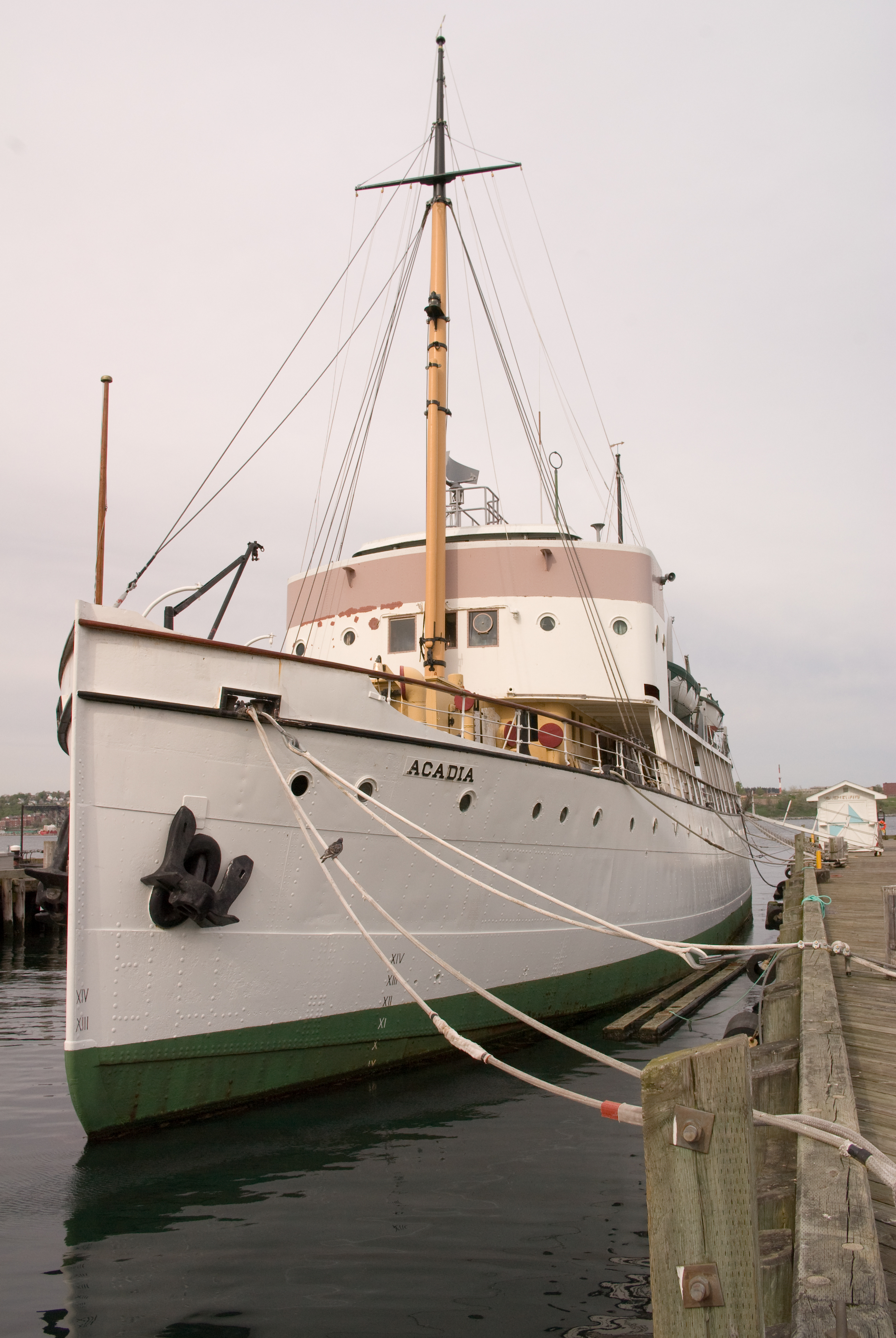 CSS Acadia, Halifax Harbour